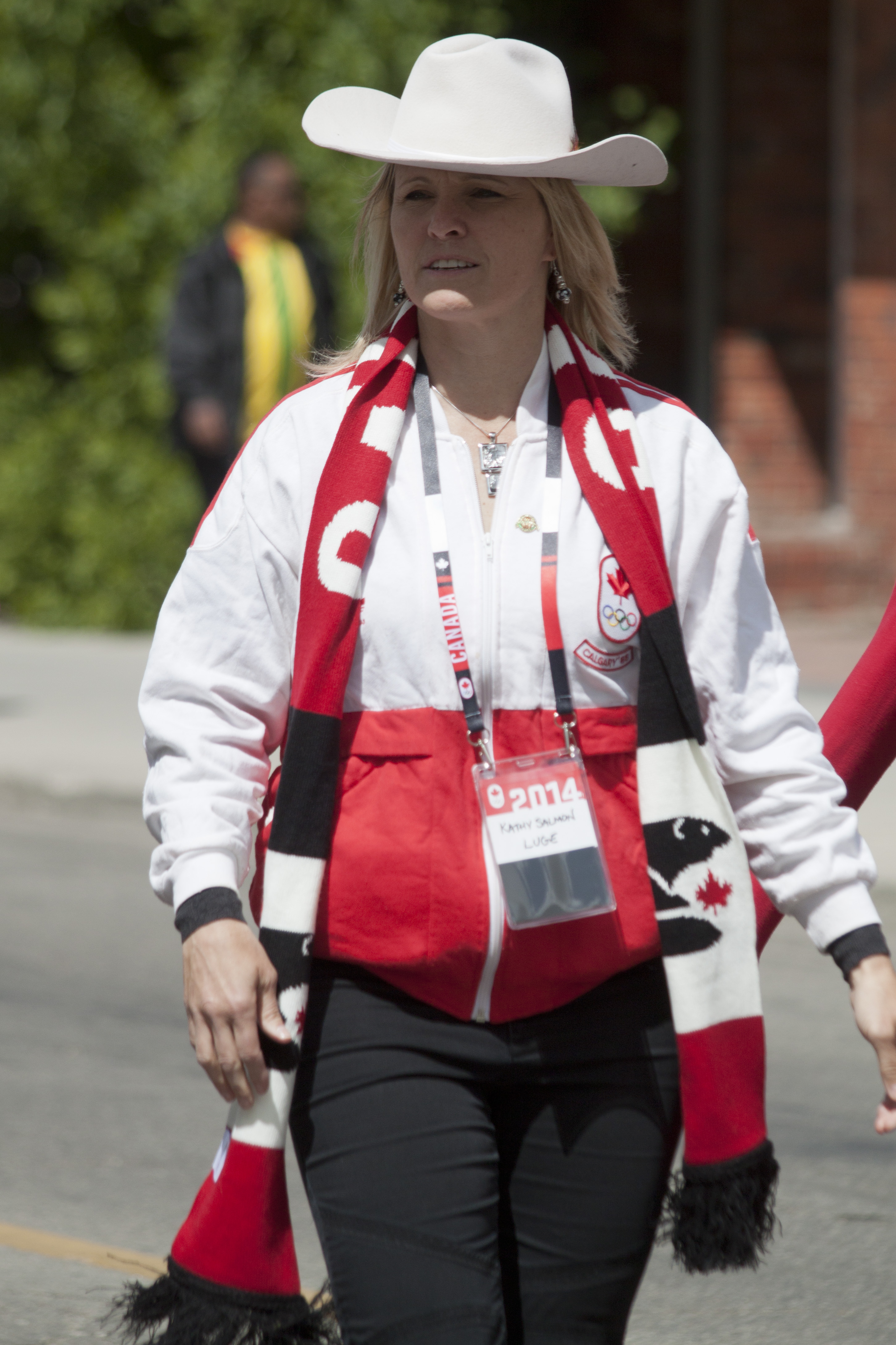 Kathy Salmon at the Parade of Champions in downtown Calgary on June 6, 2014. Image has been cropped.